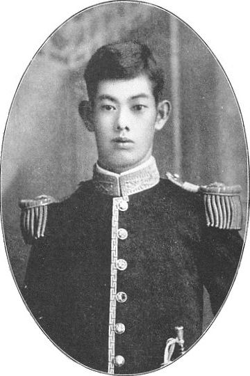 Munesada Date